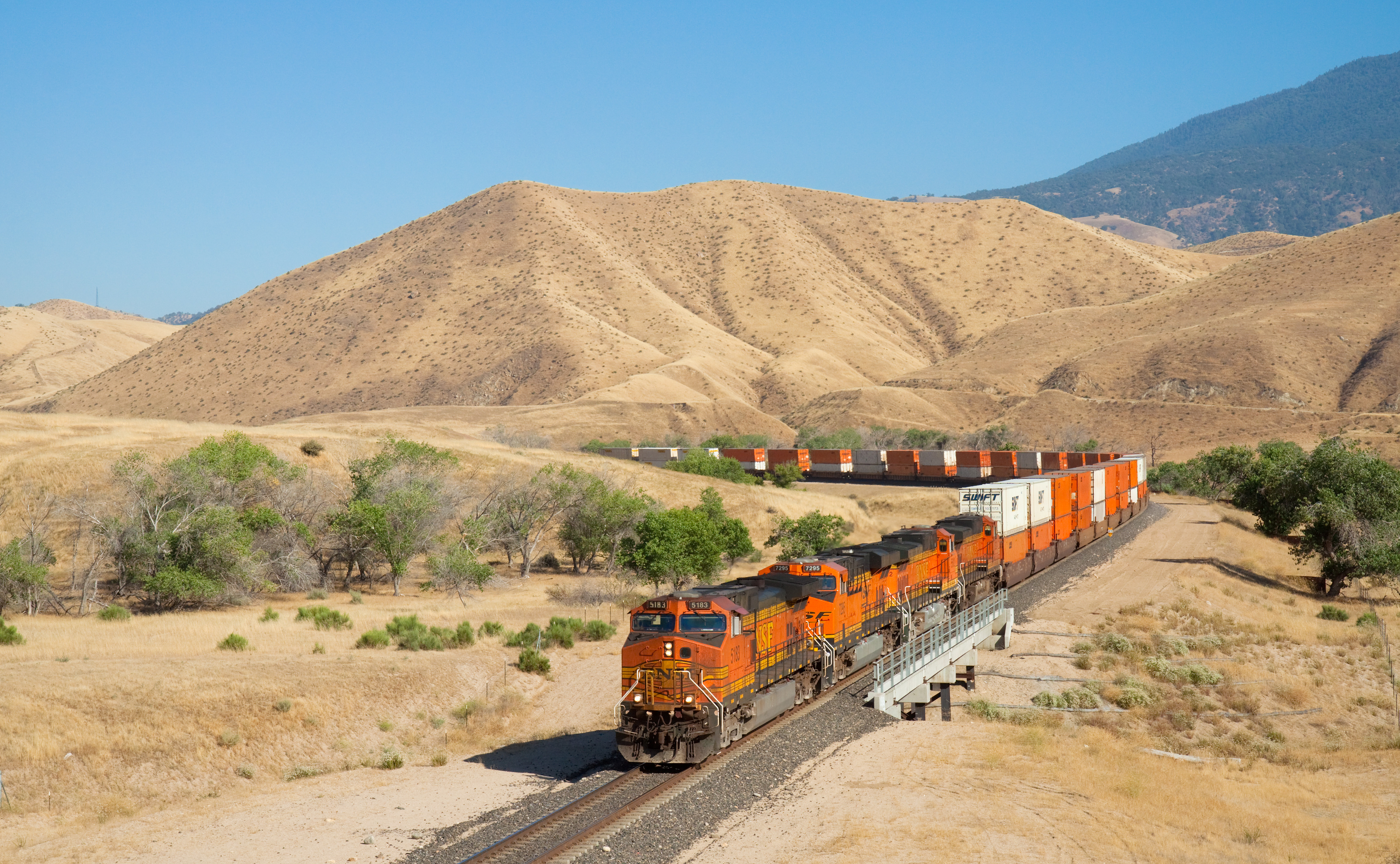 Four BSNF units (a GE C44-9W is leading) with a double-stack train descending Tehachapi Pass, between Caliente and Bakersfield, CA.